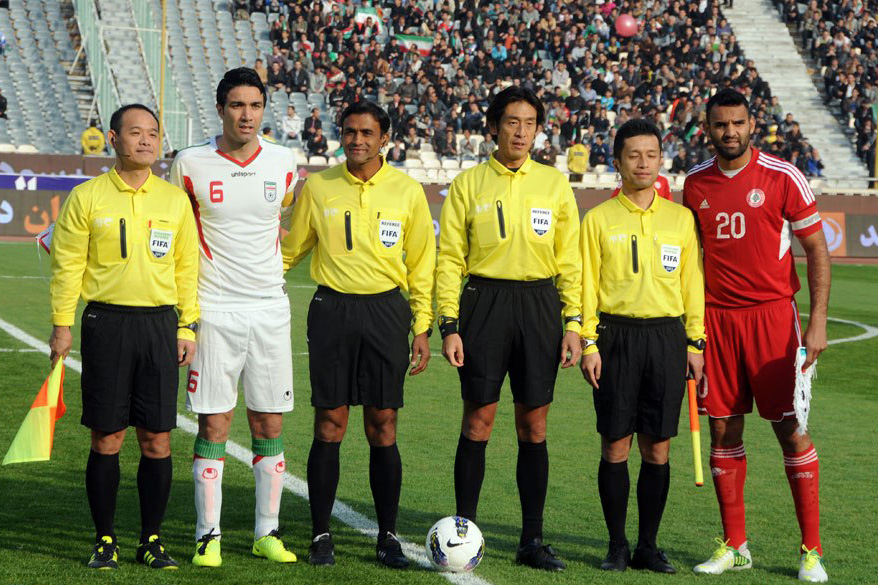 Iran v Lebanon at the 2015 AFC Asian Cup qualifiers.